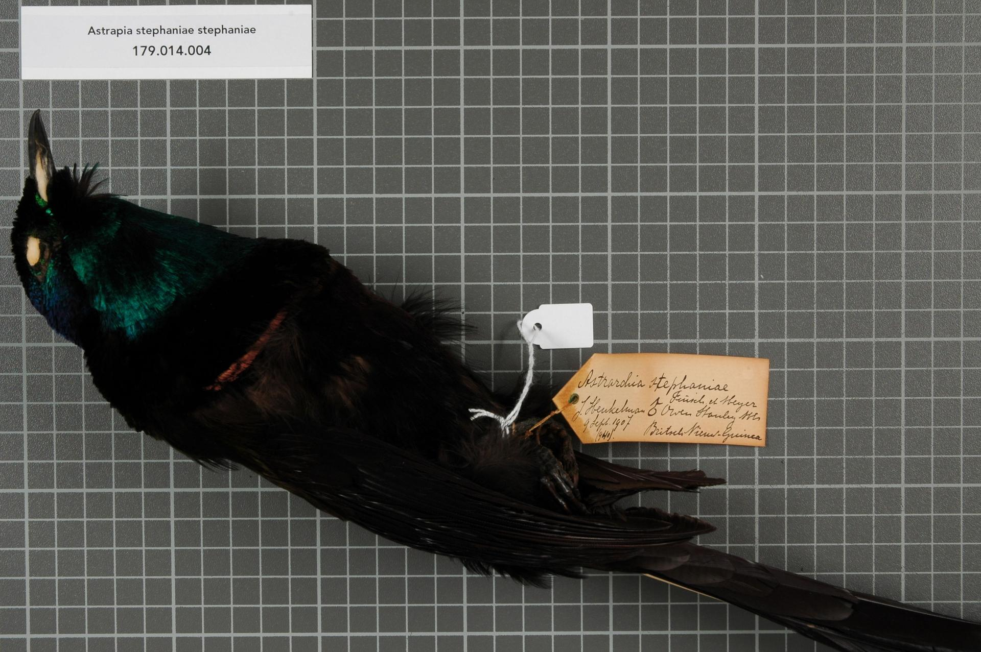 Astrapia stephaniae stephaniae (Finsch, 1885)